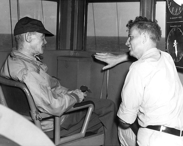 Vice Admiral Marc A. Mitscher, Commander, Task Force 58 (at left) with his Chief of Staff, Commodore Arleigh A. Burke, on the Flag Bridge of USS Randolph (CV-15), during operations off Okinawa in June 1945